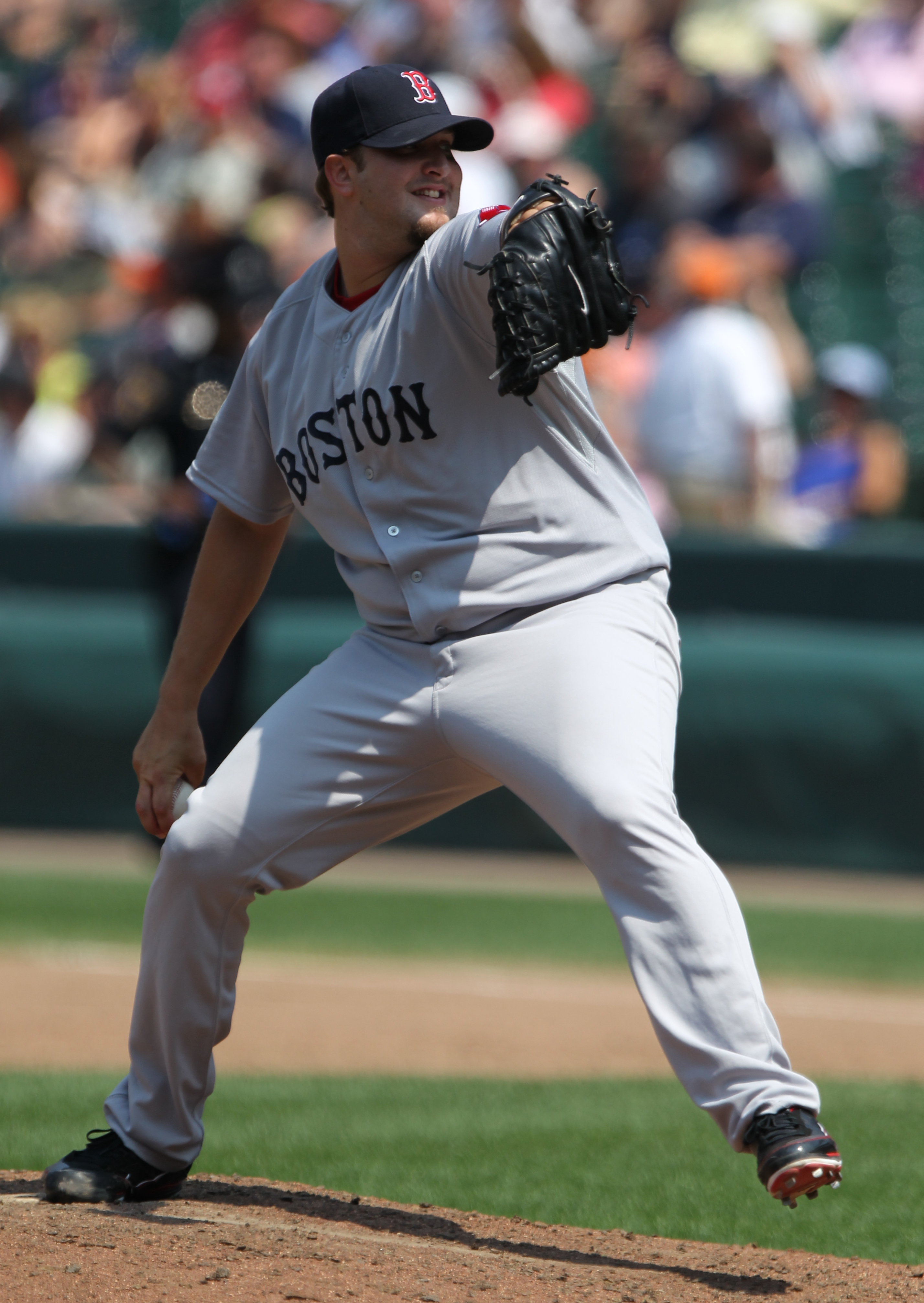 Boston Red Sox relief pitcher Matt Albers on July 20, 2011.